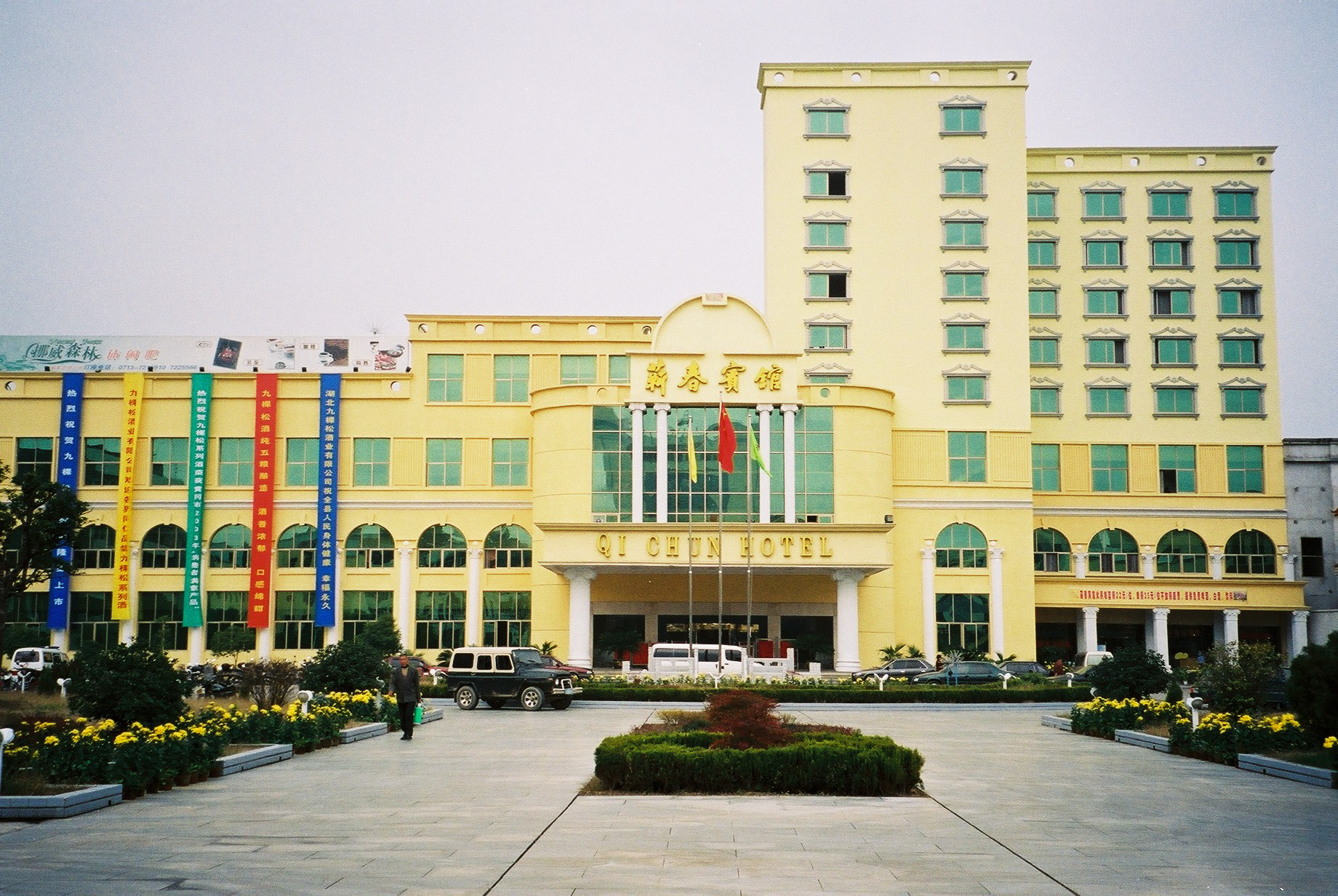 Qichun Hotel, taken by myself (Frank Feather) in December 2003.